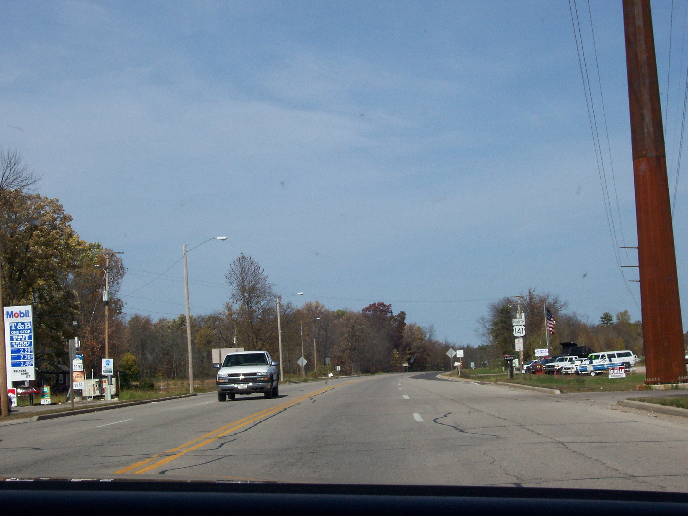 Travelly north on U.S. Route 141 at the north edge of Crivitz, Wisconsin, United States. This image was taken October 7, 2006 by User:Royalbroil (image date is wrong) Category:Images of Wisconsin highways